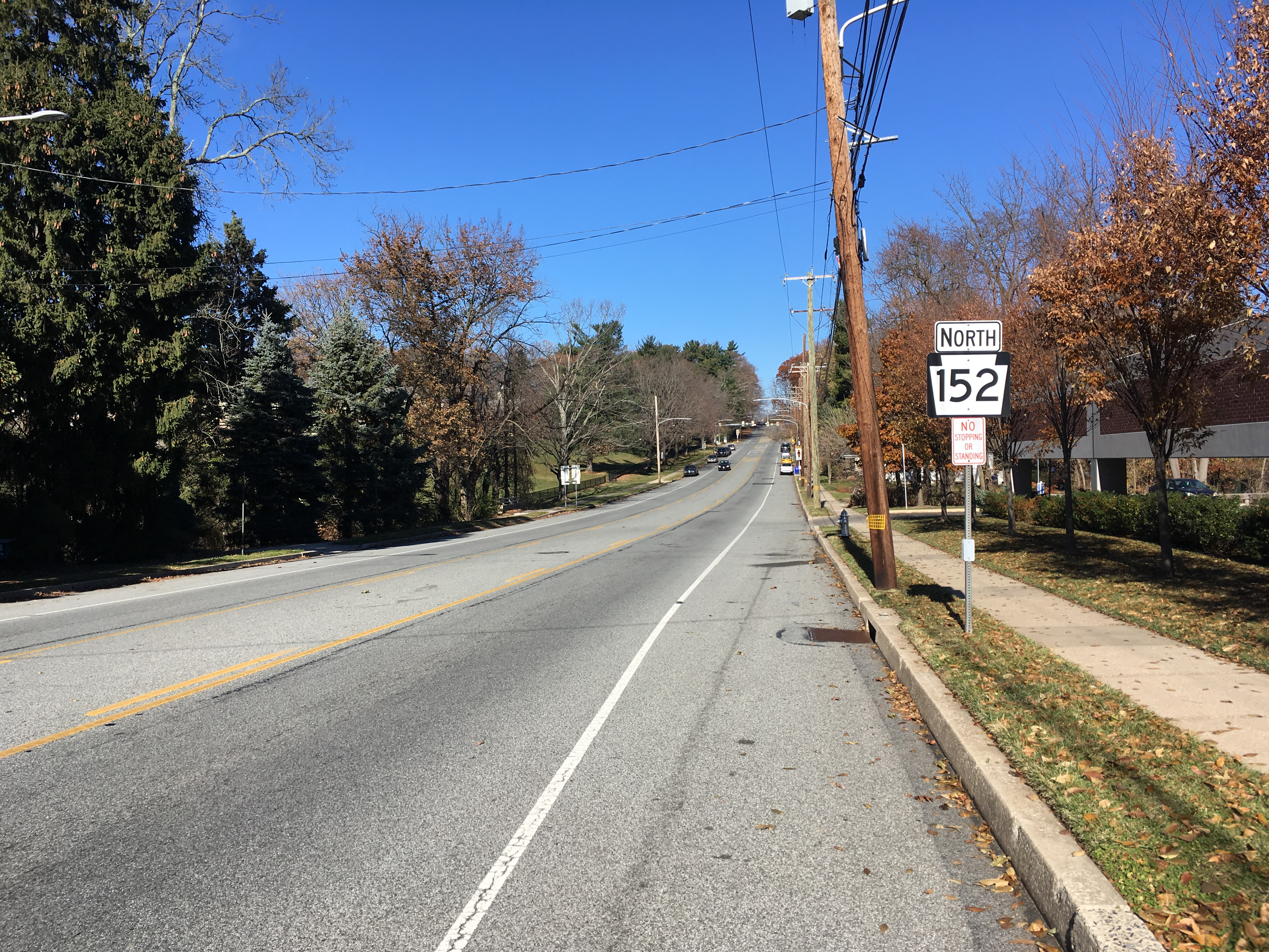 Northbound Pennsylvania Route 152 (Limekiln Pike) past the intersection with Pennsylvania Route 73 (Church Road) in Glenside, Pennsylvania